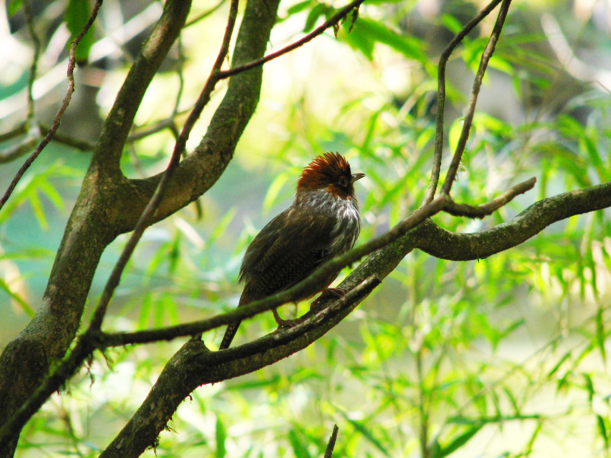 Actinodura morrisoniana, Alishan, Chiayi County, Taiwan, 23°29'54"N 120°46'24"E.